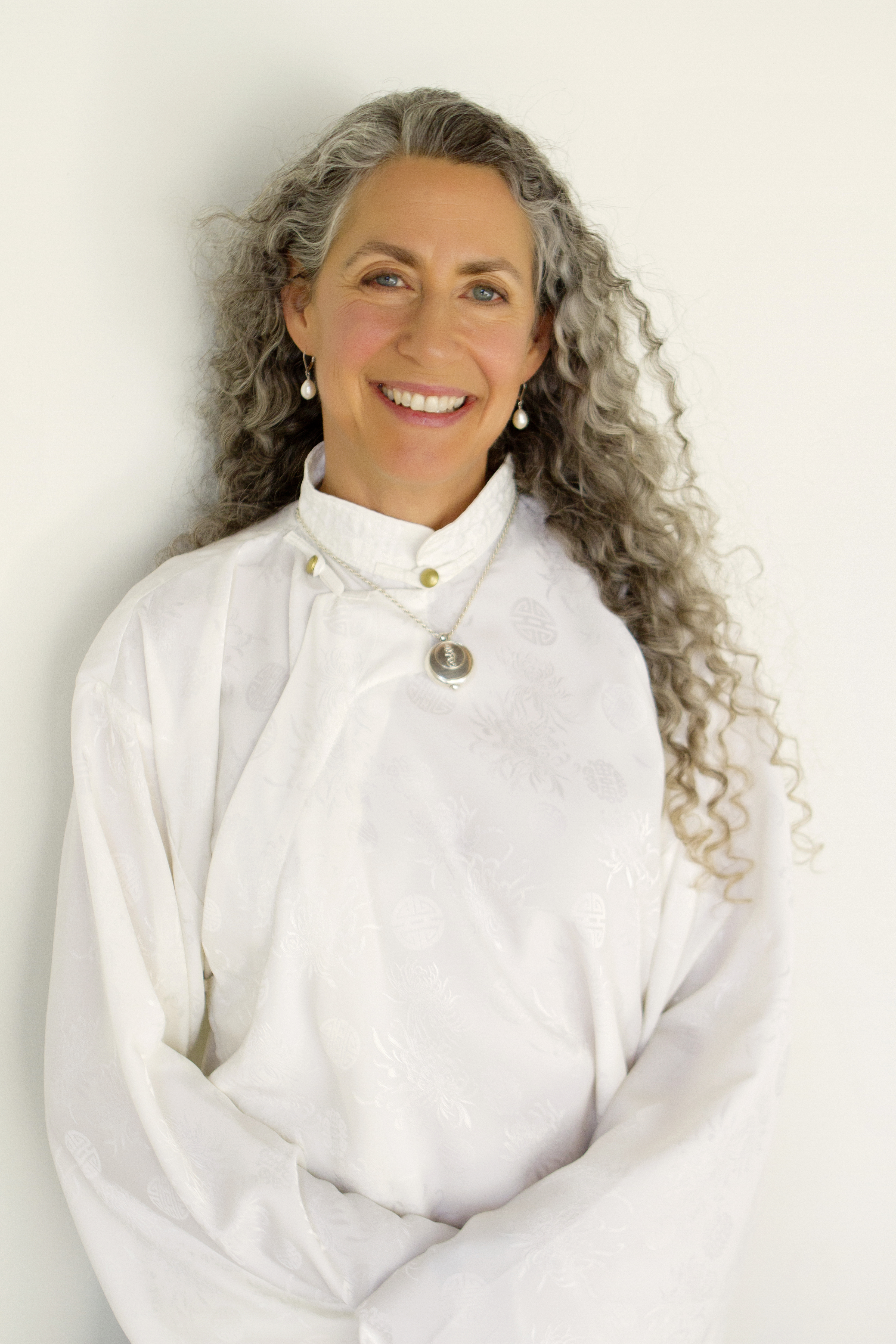 Official headshot of Linda Pritzker, aka Lama Tsomo. Taken in 2014.